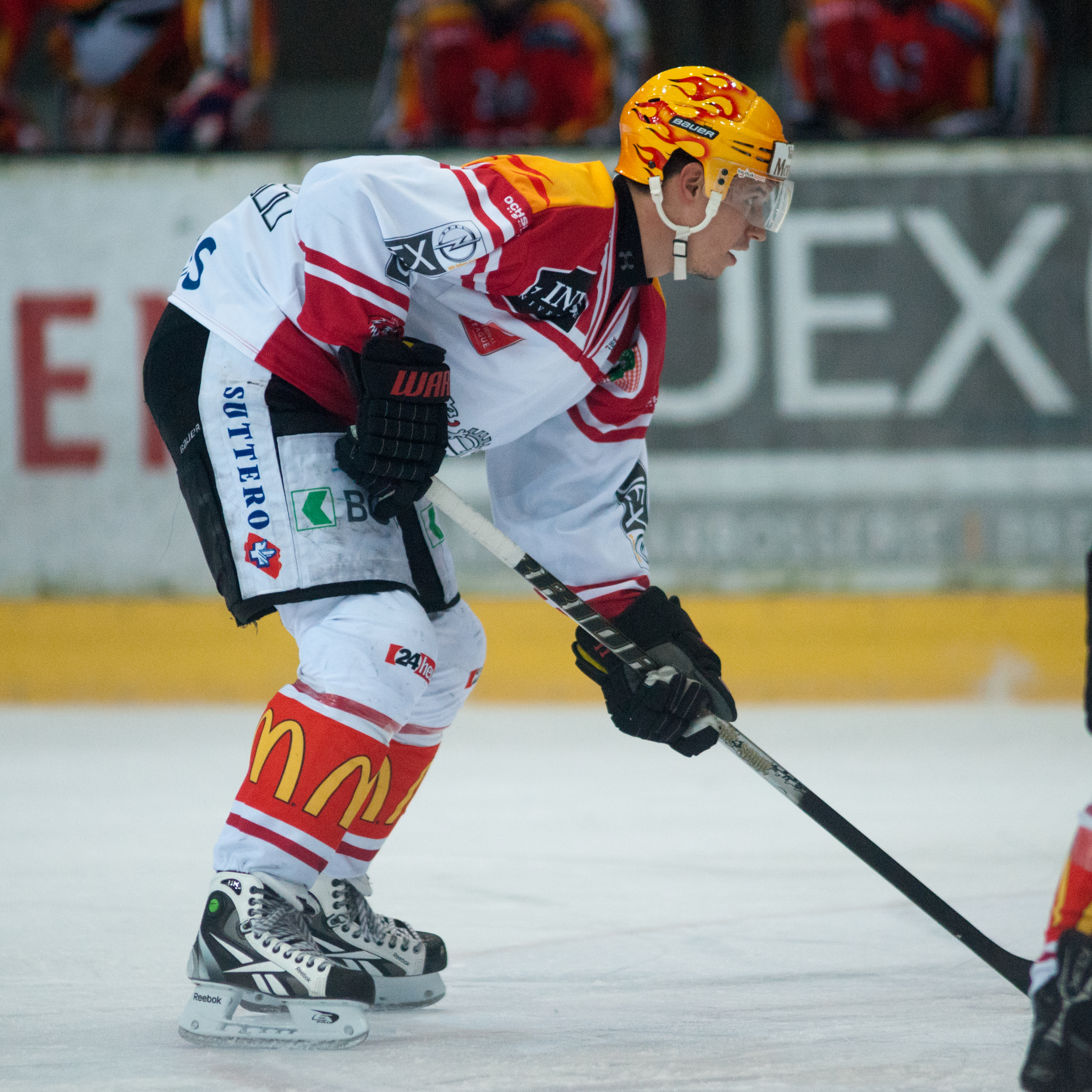 The making of this document was supported by Wikimedia CH. (Submit your project!) For all the files concerned, please see the category Supported by Wikimedia CH. Lausanne HC vs. EHC Basel, 11th March 2011